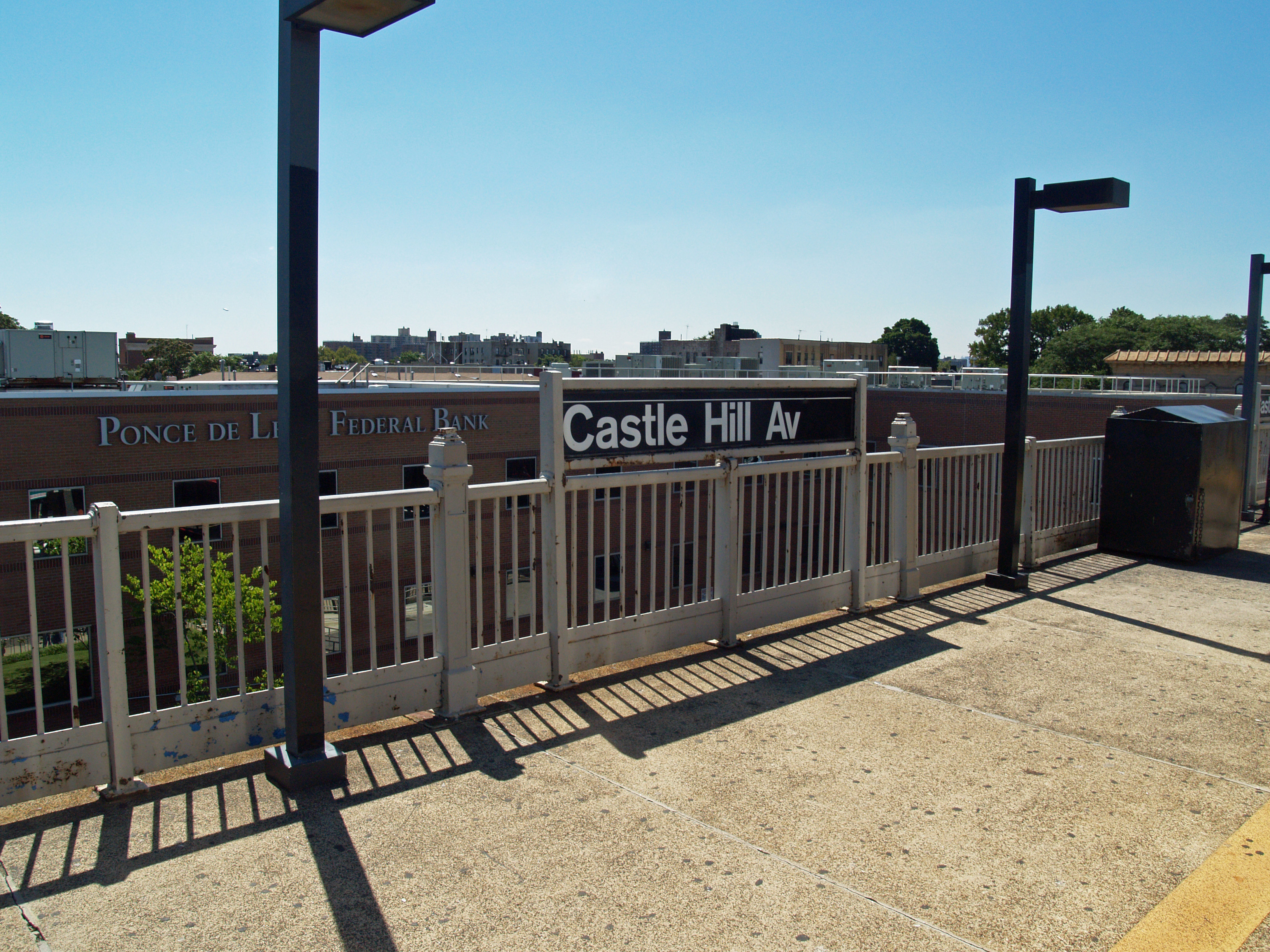 Castle Hill Avenue (IRT Pelham Line) by David Shankbone